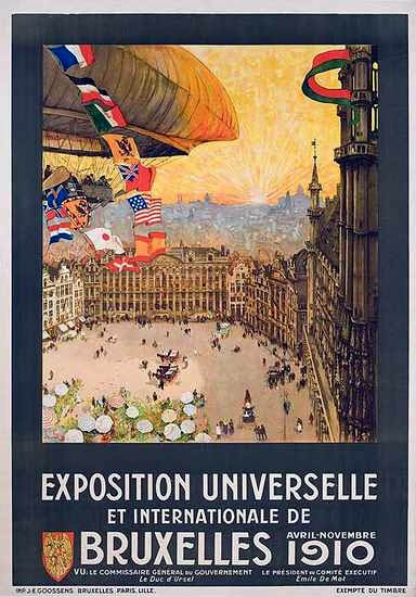 Poster for the 1910 International Exhibition held in Brussels, Belgium.